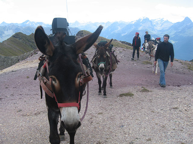 Media Donkeys Donkeys transformed into a mobile-media station